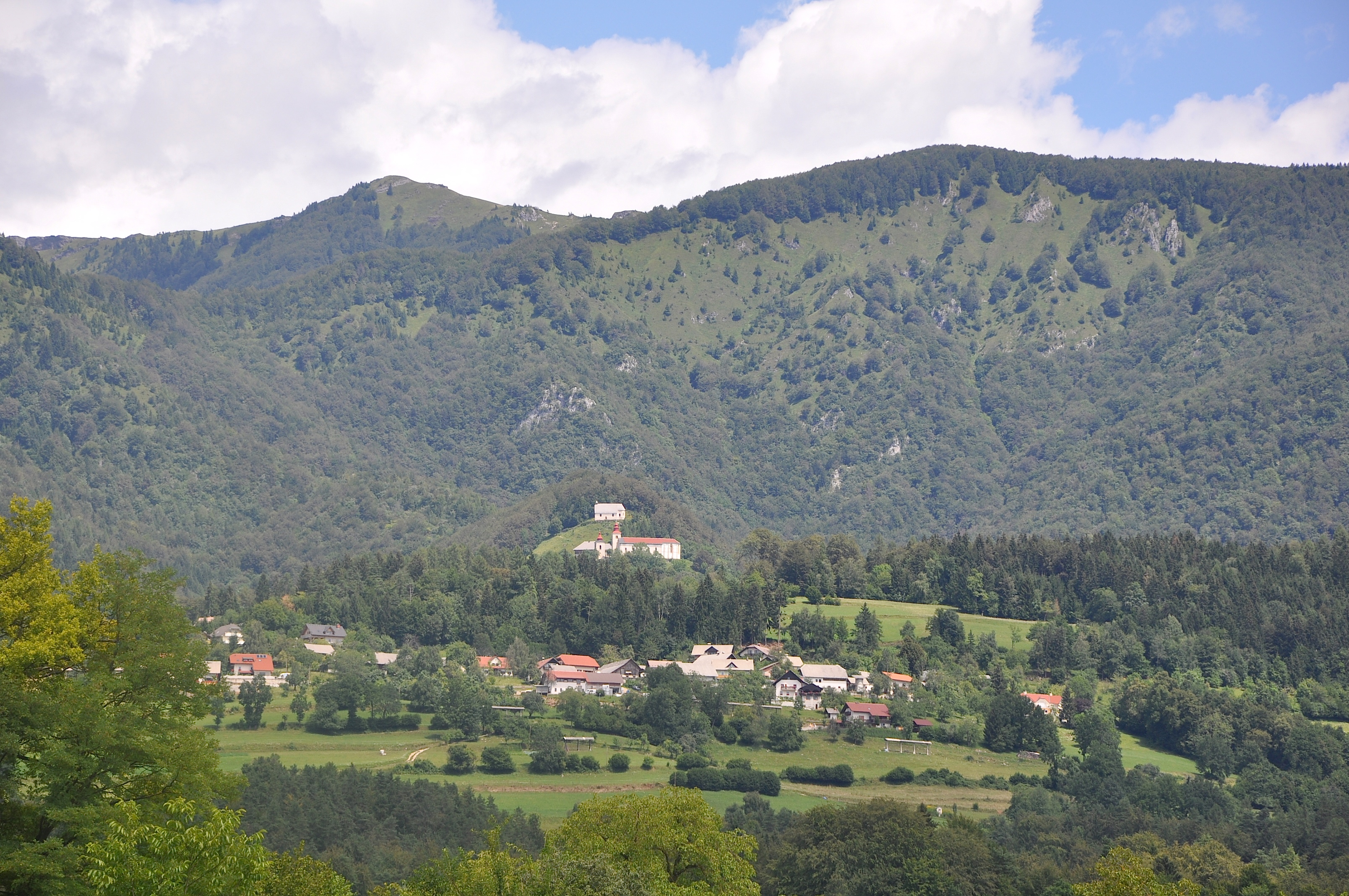 Brezje nad Kamnikom, village in Slovenia